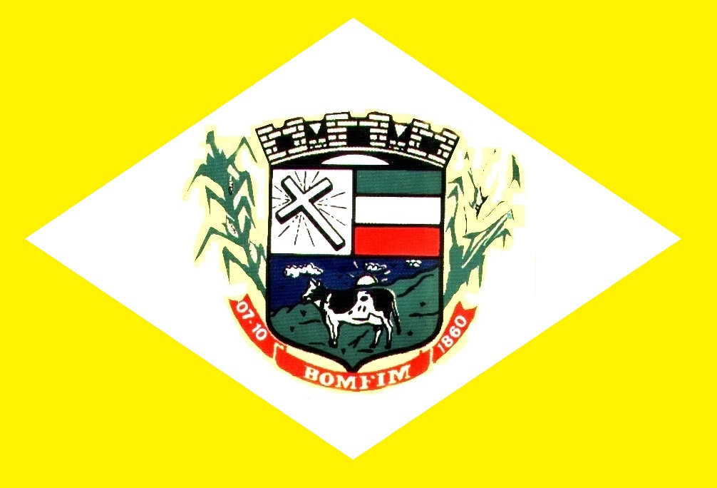 Flags of the city of Bonfim, Minas Gerais , Brazil.